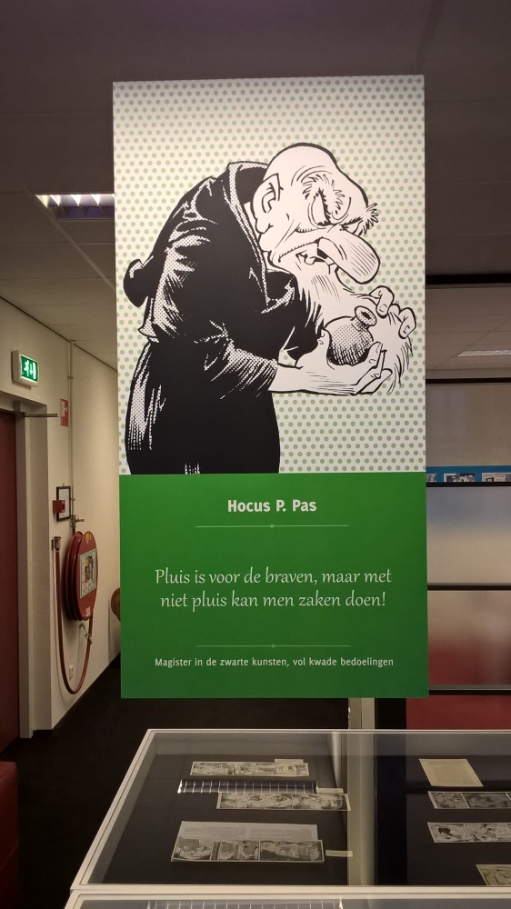 Strips! Museum, Rotterdam, The Netherlands. Exhibition about Tom Poes 75 years.